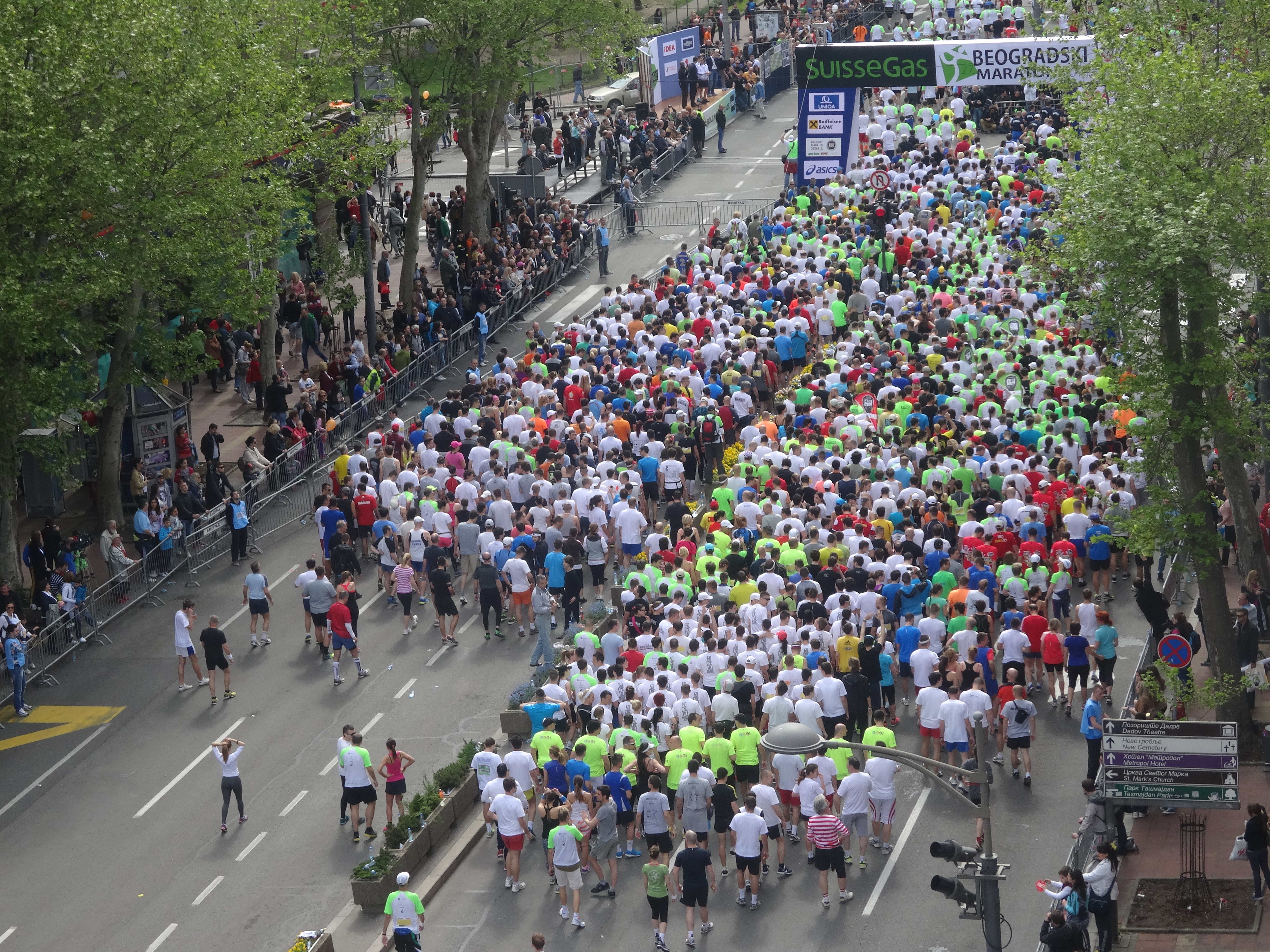 Belgrade Marathon 2014.Српски (ћирилица): Београдски маратон 2014.